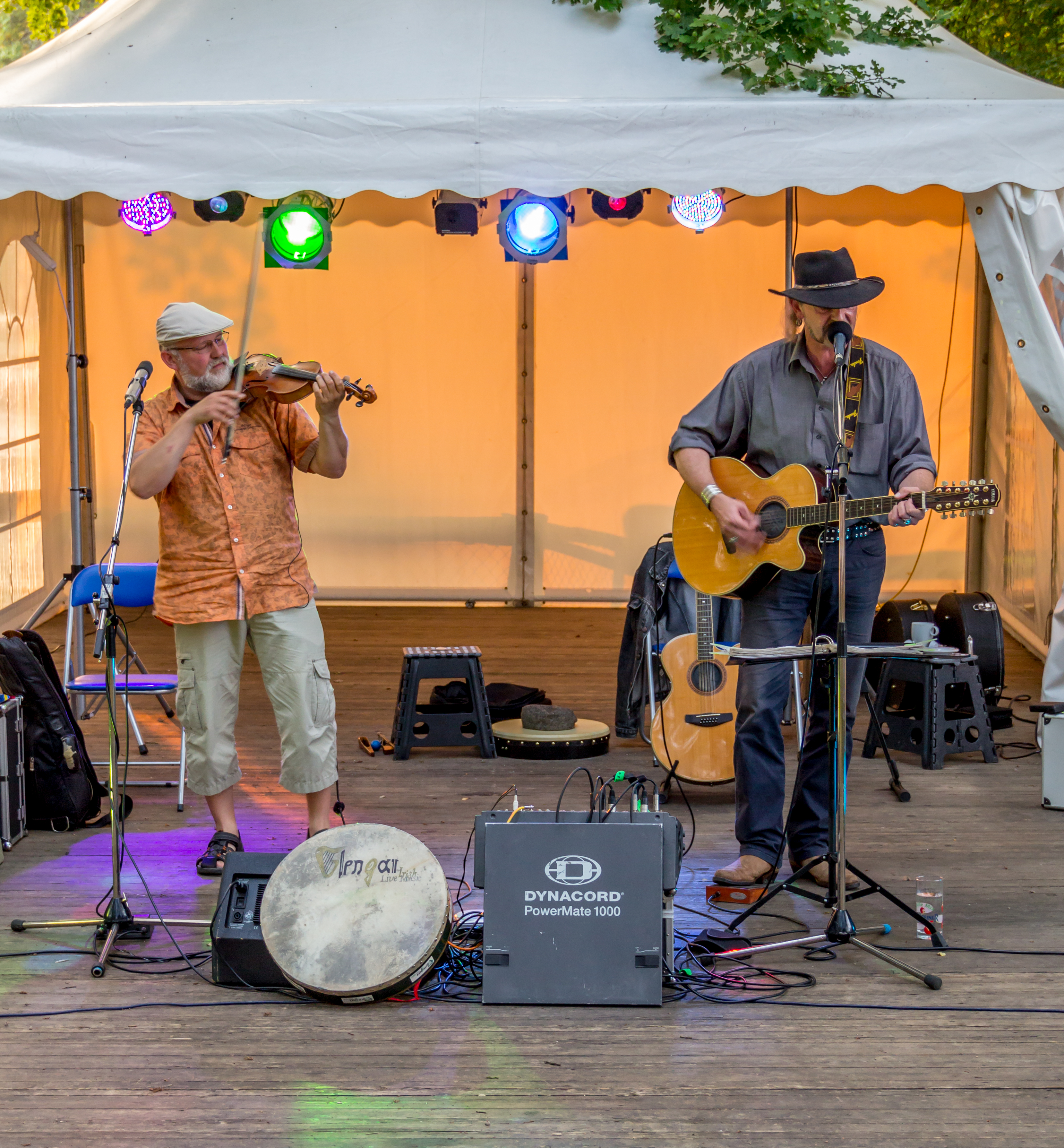 Irish folk duo “Glengar” at a public music event in Hausdülmen, Dülmen, at the Große Teichsmühle in the context of the “Klangspuren” in the event series “Dülmener Sommer 2013”